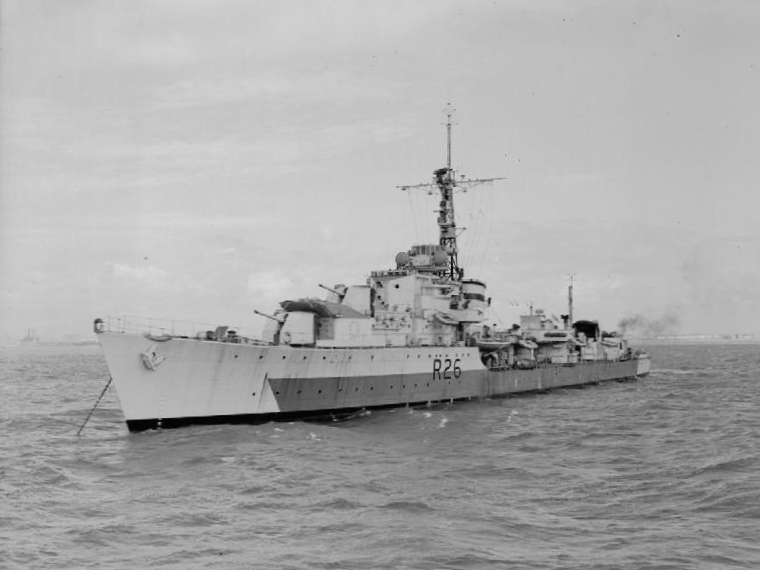 Photograph of British C class destroyer HMS Comet.